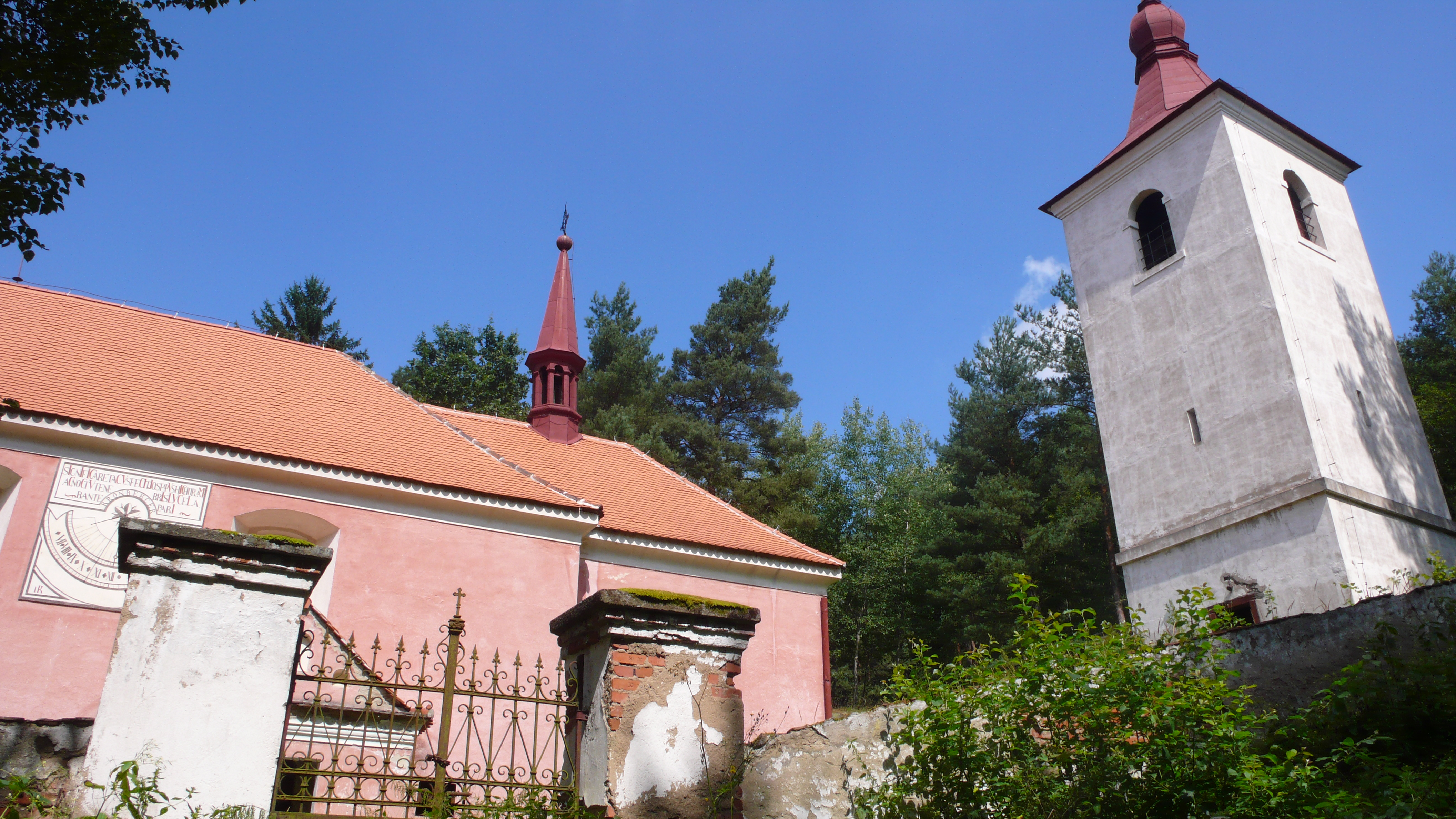 St. Bartholomews church